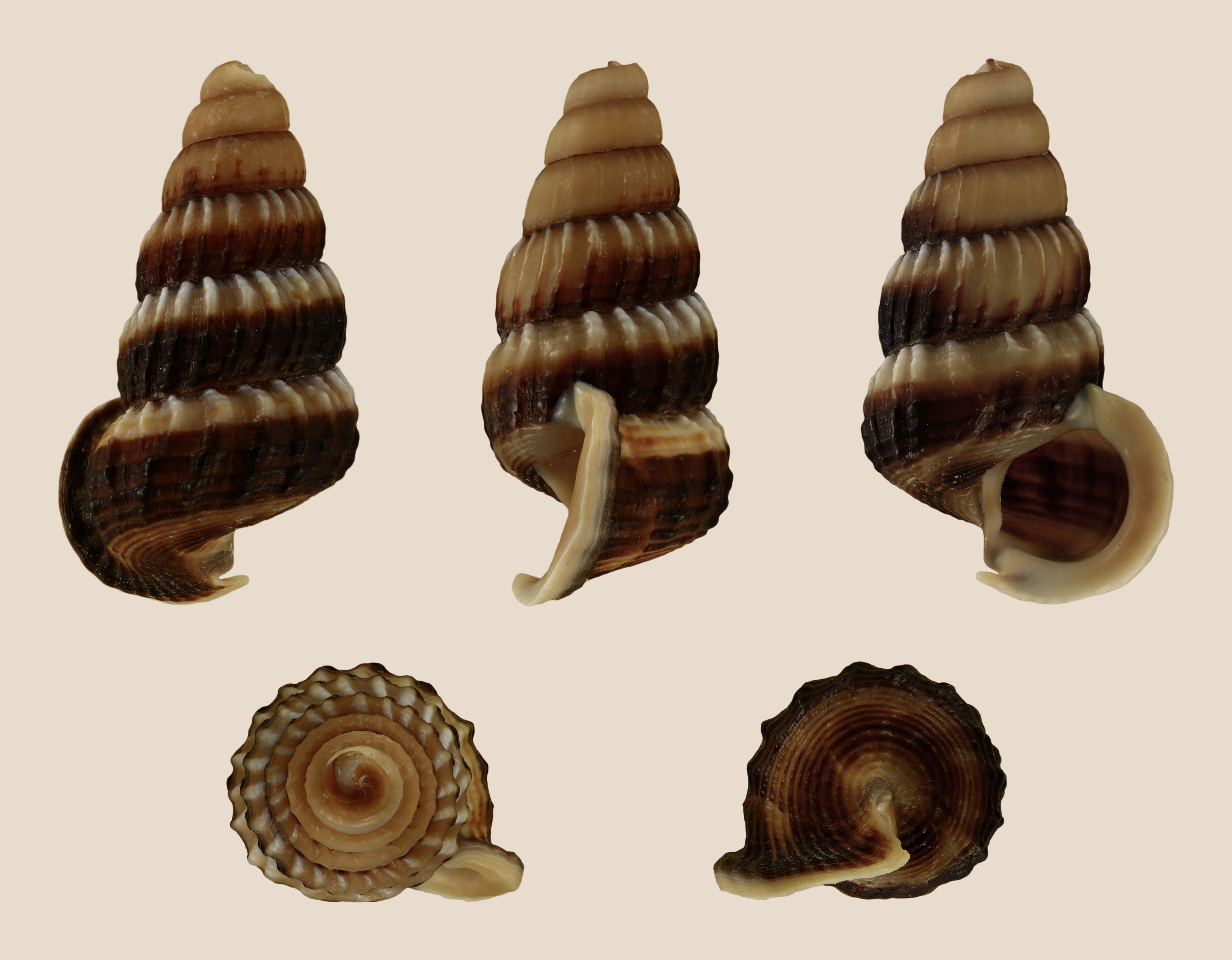 Obtuse Horn Snail; Length 4.0 cm; Originating from the Philippines; Shell of own collection, therefore not geocoded. Dorsal, lateral (right side), ventral, back, and front view.